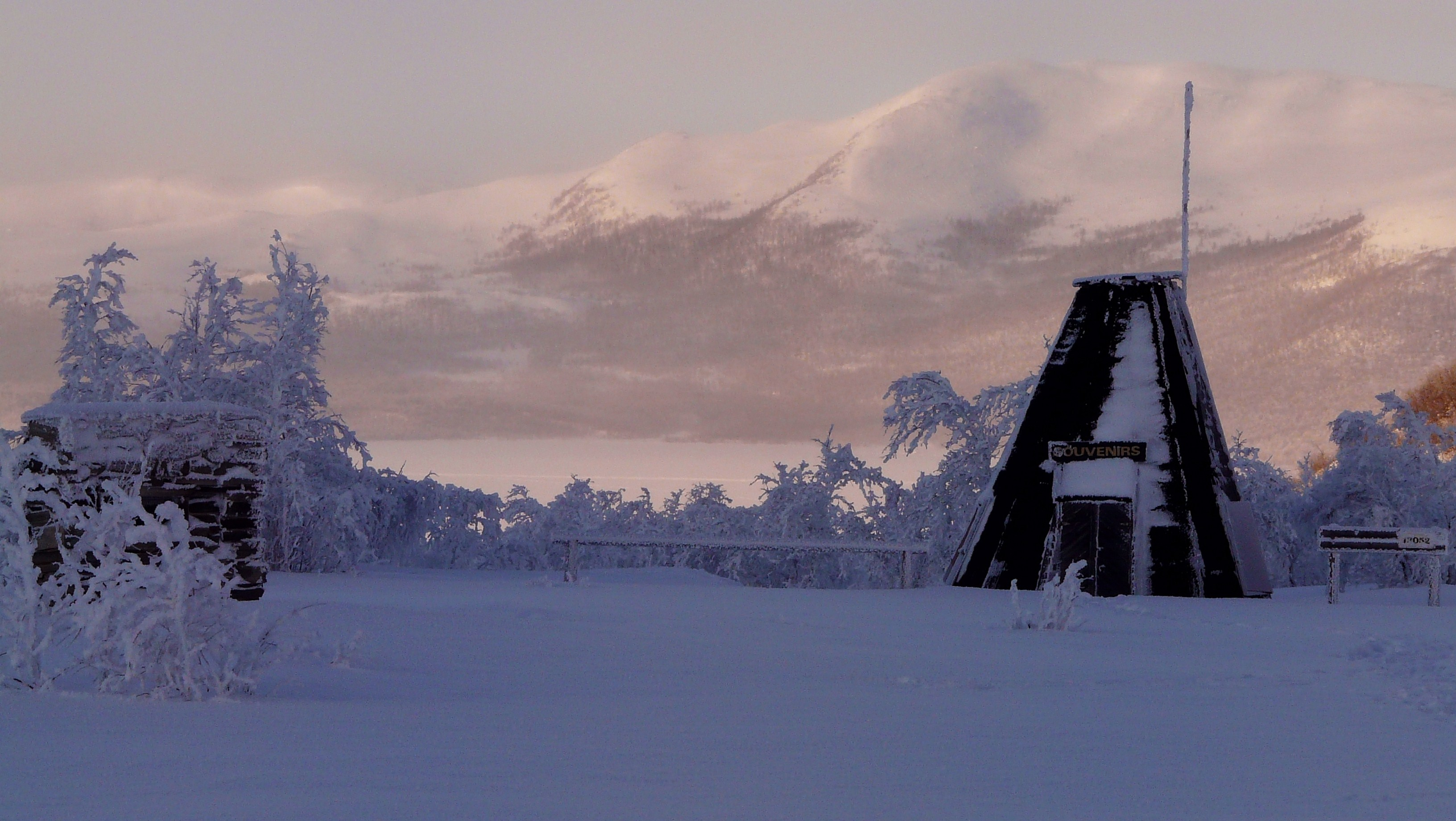 Muotkatakka (Muotkkádat) in 2009 February. Muotkatakanlahti (bay) of Ala-Kilpisjärvi (lake) and Swedish arctic hills in the background.